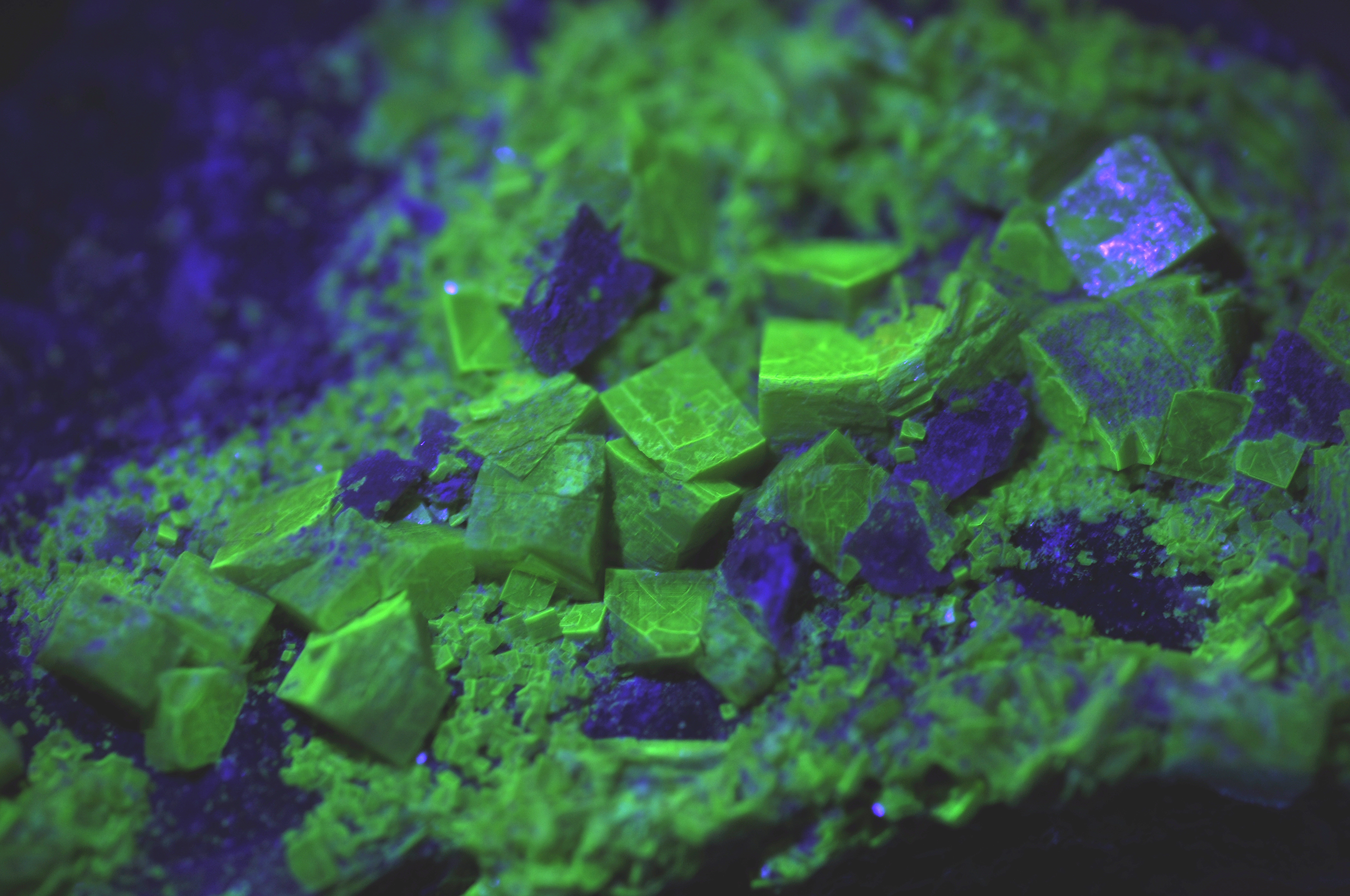 autunite, quartz var. smoky quartz, UV light long waves : Vénachat, Compreignac, Haute-Vienne, Limousin, France